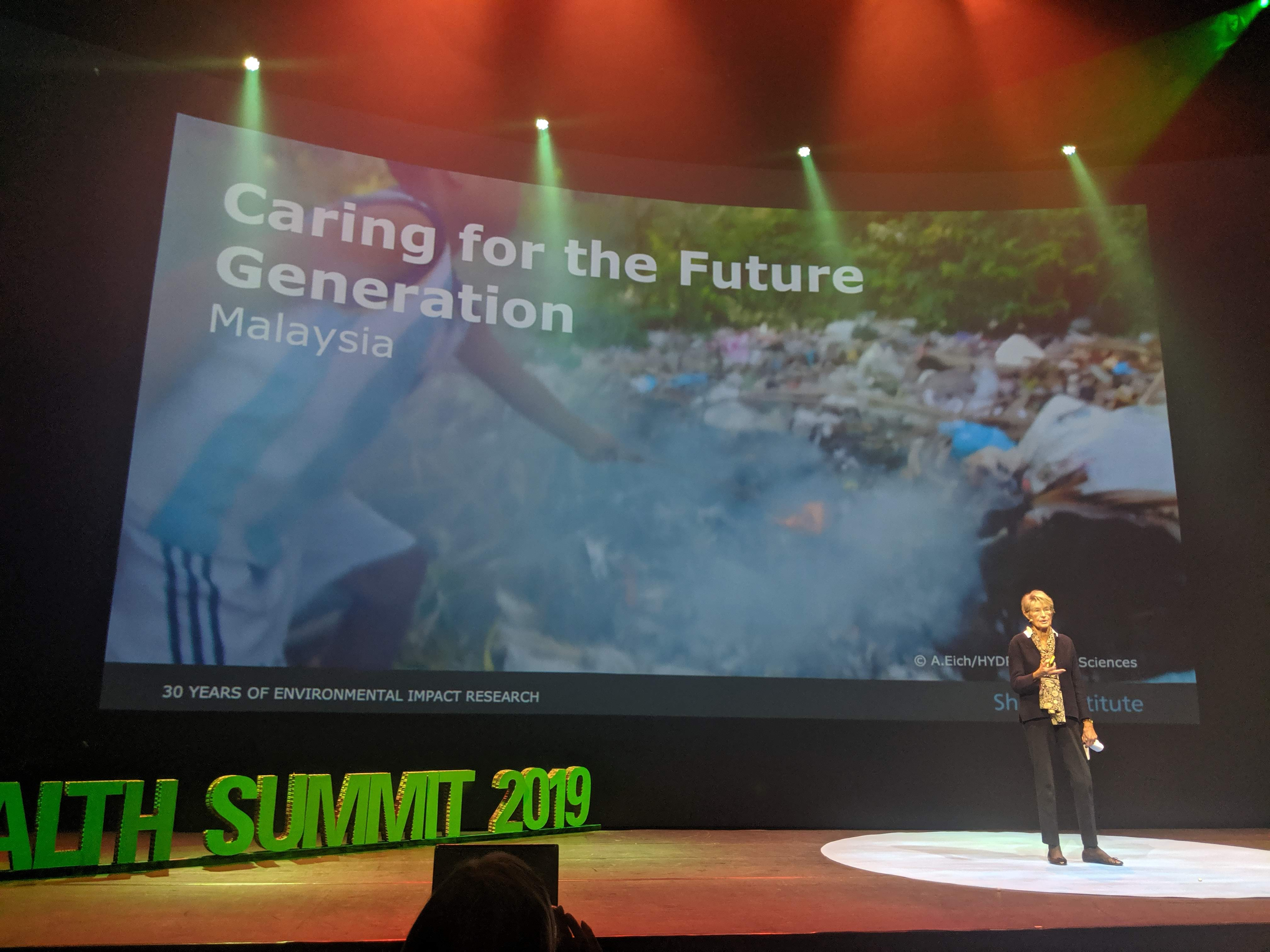 Dr. Susan Shaw delivers "When Plastic Burns" onstage at the Plastic Health Summit in Amsterdam, October 3, 2019